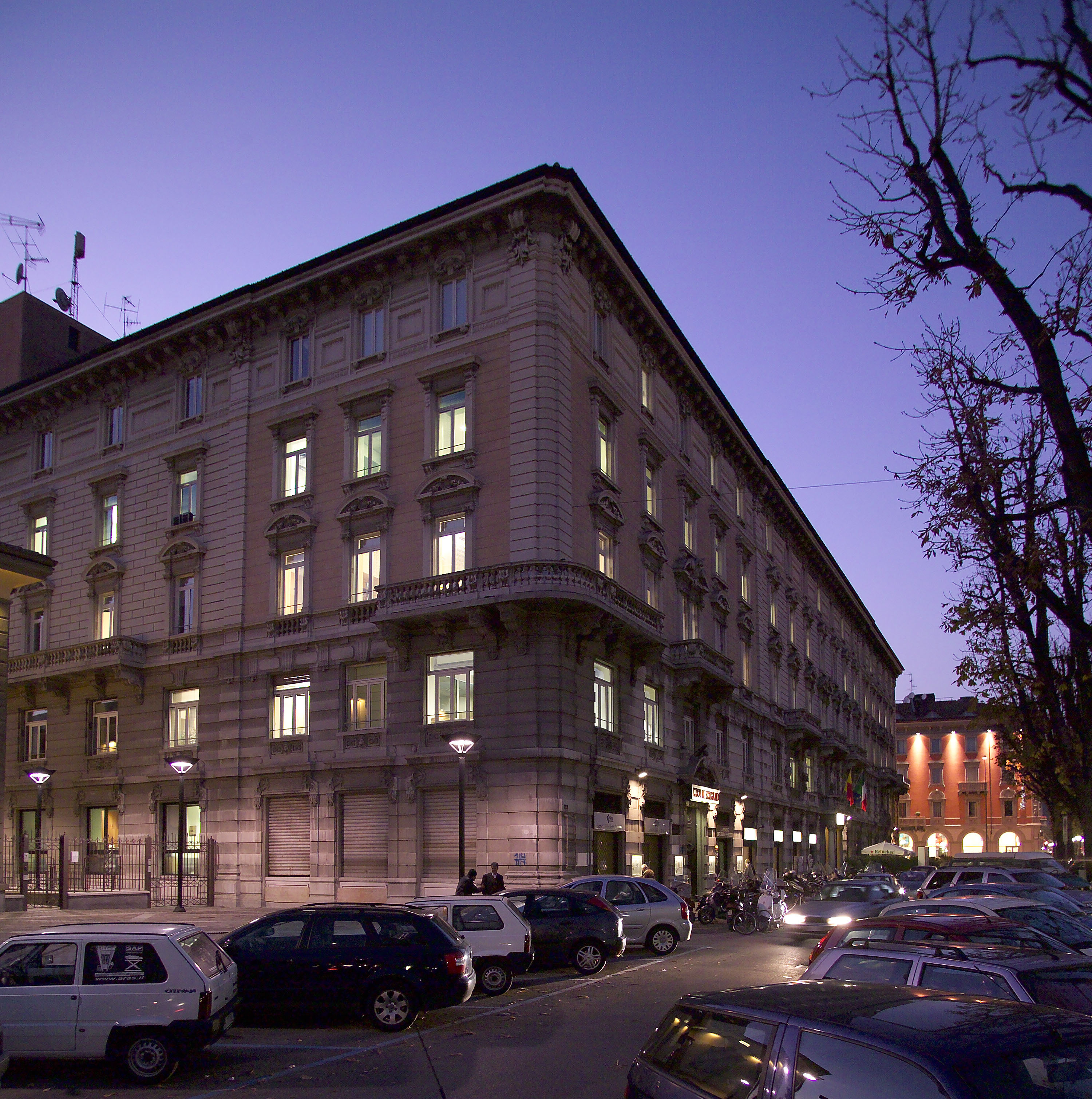 Sede Sesaab